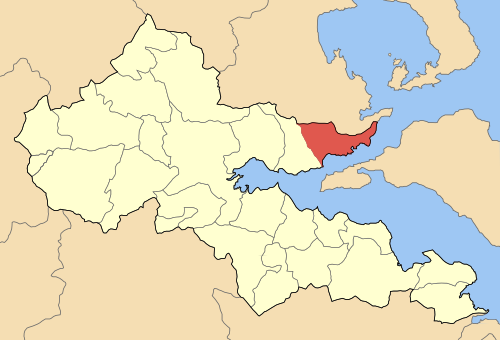 Locator map of Pelasgia municipality (Δήμος Πελασγίας) in Fthiotida prefecture (Νομός Φθιώτιδας) in Greece.